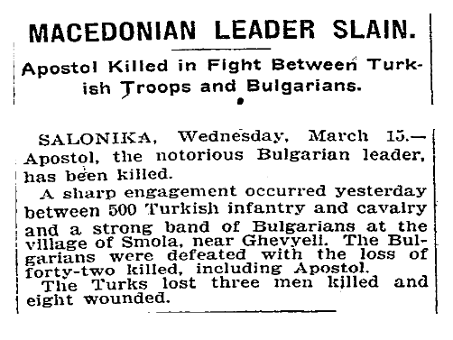 Information about the Battle at Smol in New York Tomes